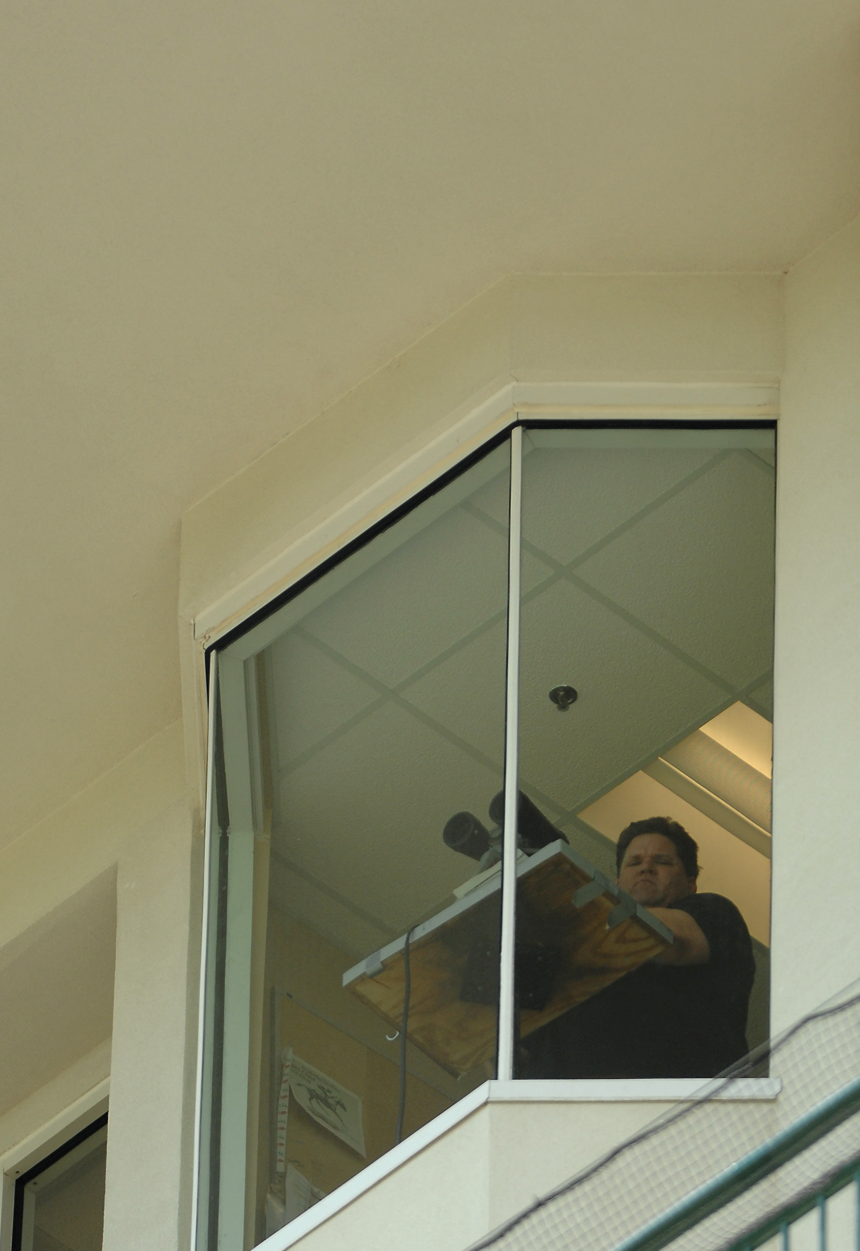 Churchill Downs announcer,Luke Kruytbosch, at work shortly before his death at age 47.